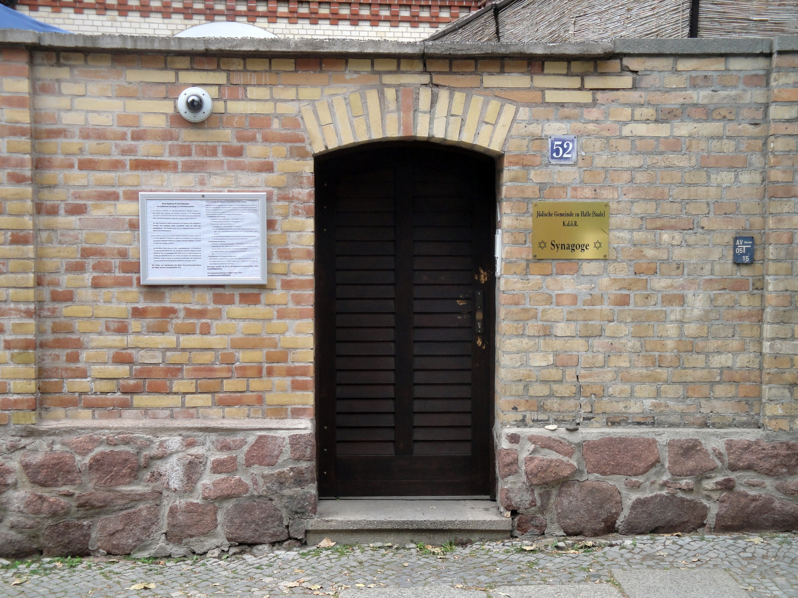 Bullet holes in the entrance door of the synagogue in Halle (Saale), Germany